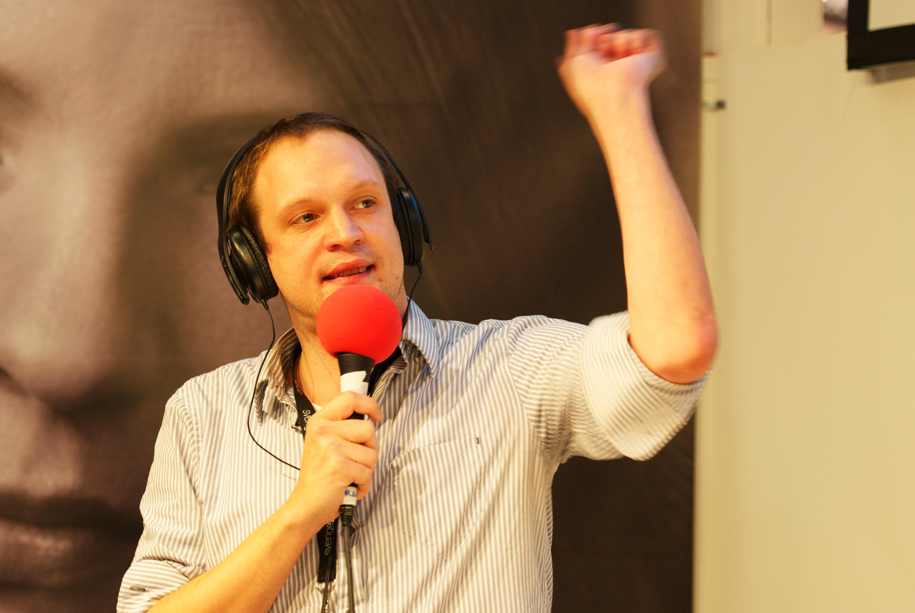 IJonatan Unge at Göteborg Book Fair 2011.